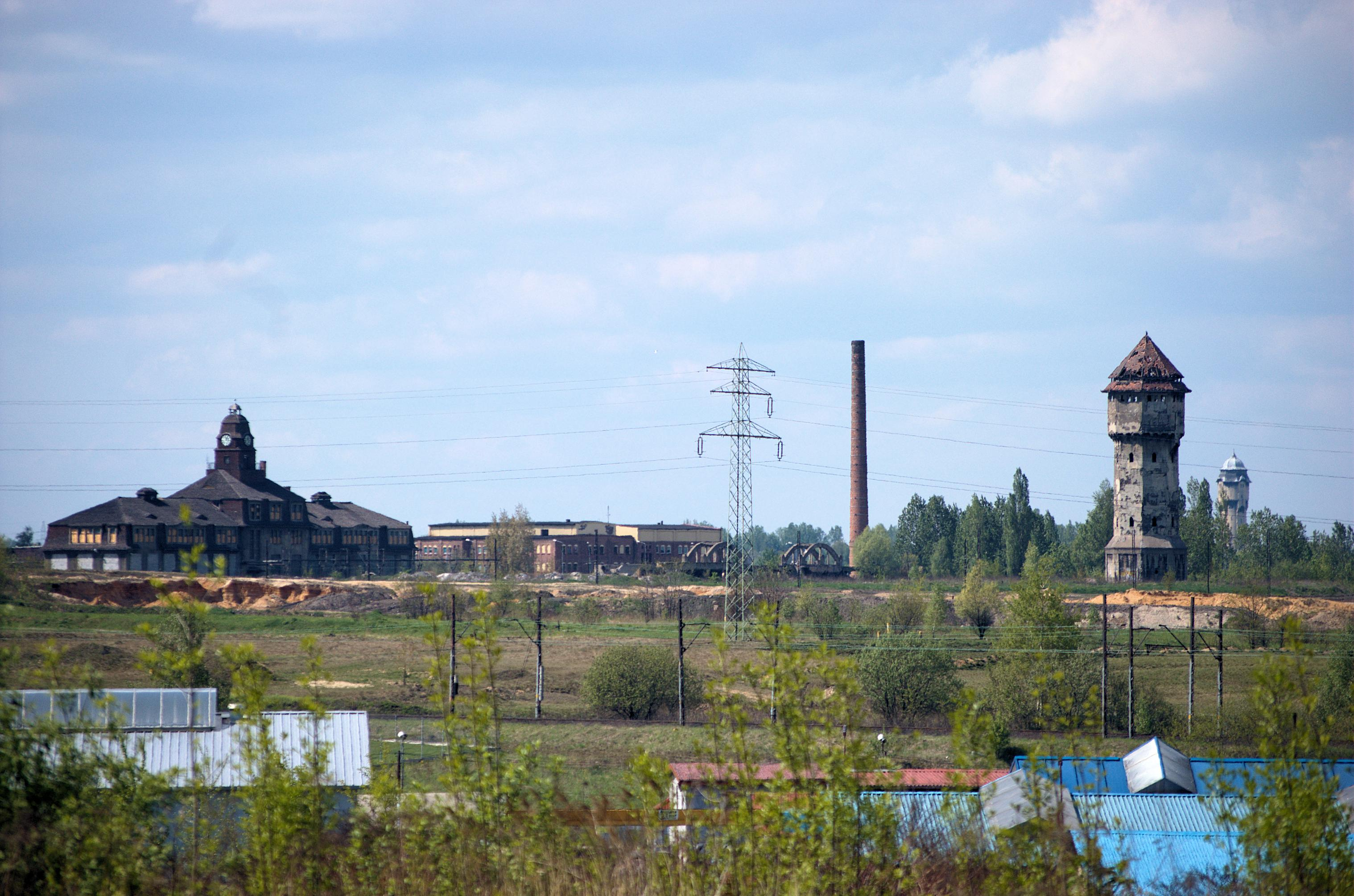 Katowice, ruiny huty Uthemann, pięknego pomnika kultury przemysłowej i jej upadku, gdy pozwolono ją rozkraść złomiarzom. Zabytek mogłoby uratować utworzenie tutaj śląskiego centrum nauki, gdyby tylko władze miasta tego chciały. The Uthemann Zink Metalworks are a beautiful monument of industrial culture and how it was ruined, when the authorities allowed it to be taken appart and sold for scrap. It could be saved, as there is a project for transforming it into a Science Learning Center, but the city government are to blind to see the chance.